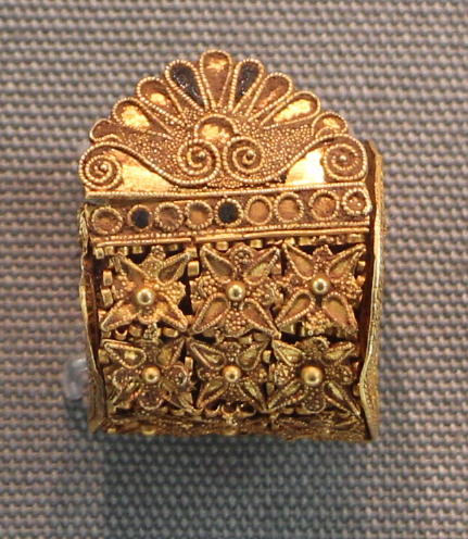 Etruscan jewellery in the Altes Museum Berlin